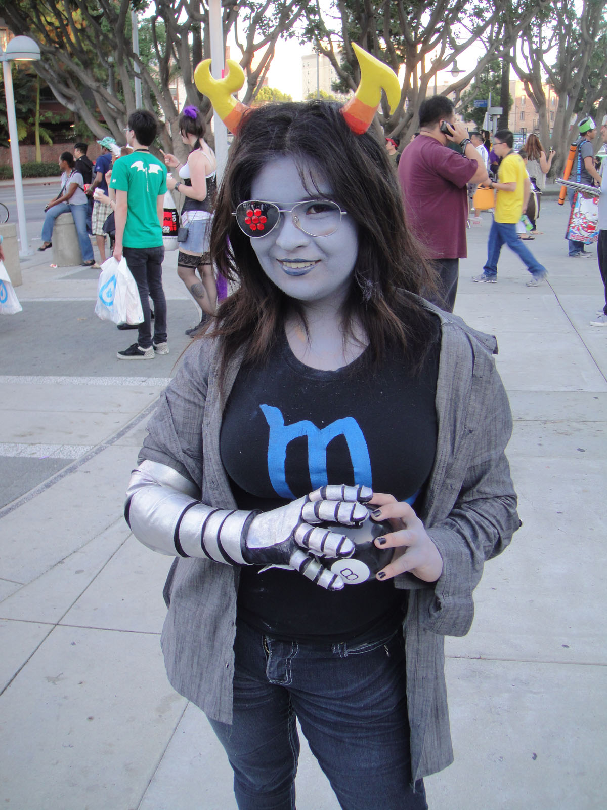 photo 2011 taken by Doug Kline If you're interested in higher resolution versions of my images, contact me via my profile page.